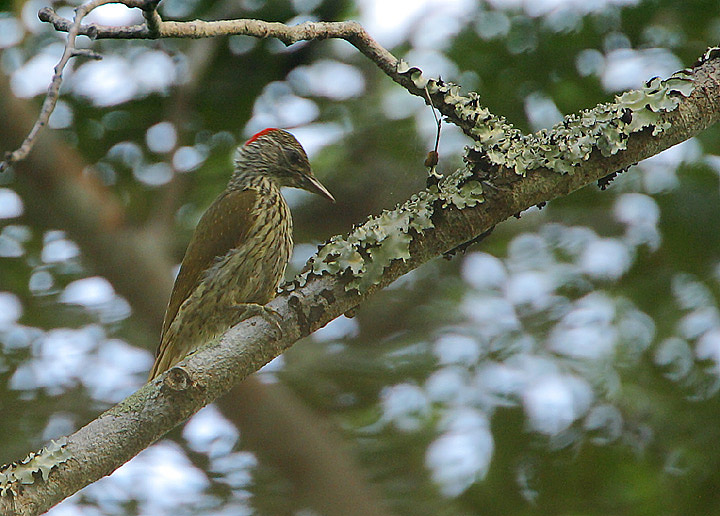 This is a female. Image taken in Arabuko-Sokoke Forest.